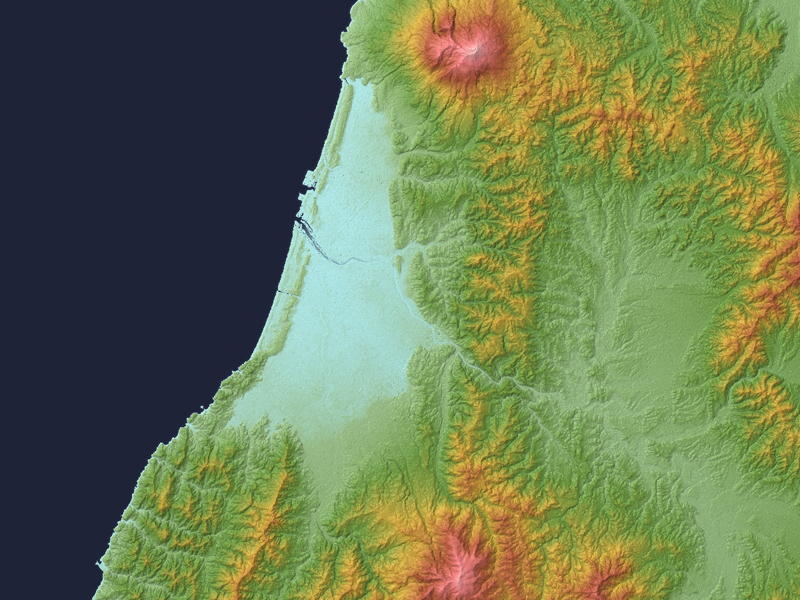 Shonai Plain in Akita Prefecture, Honshu, Japan.